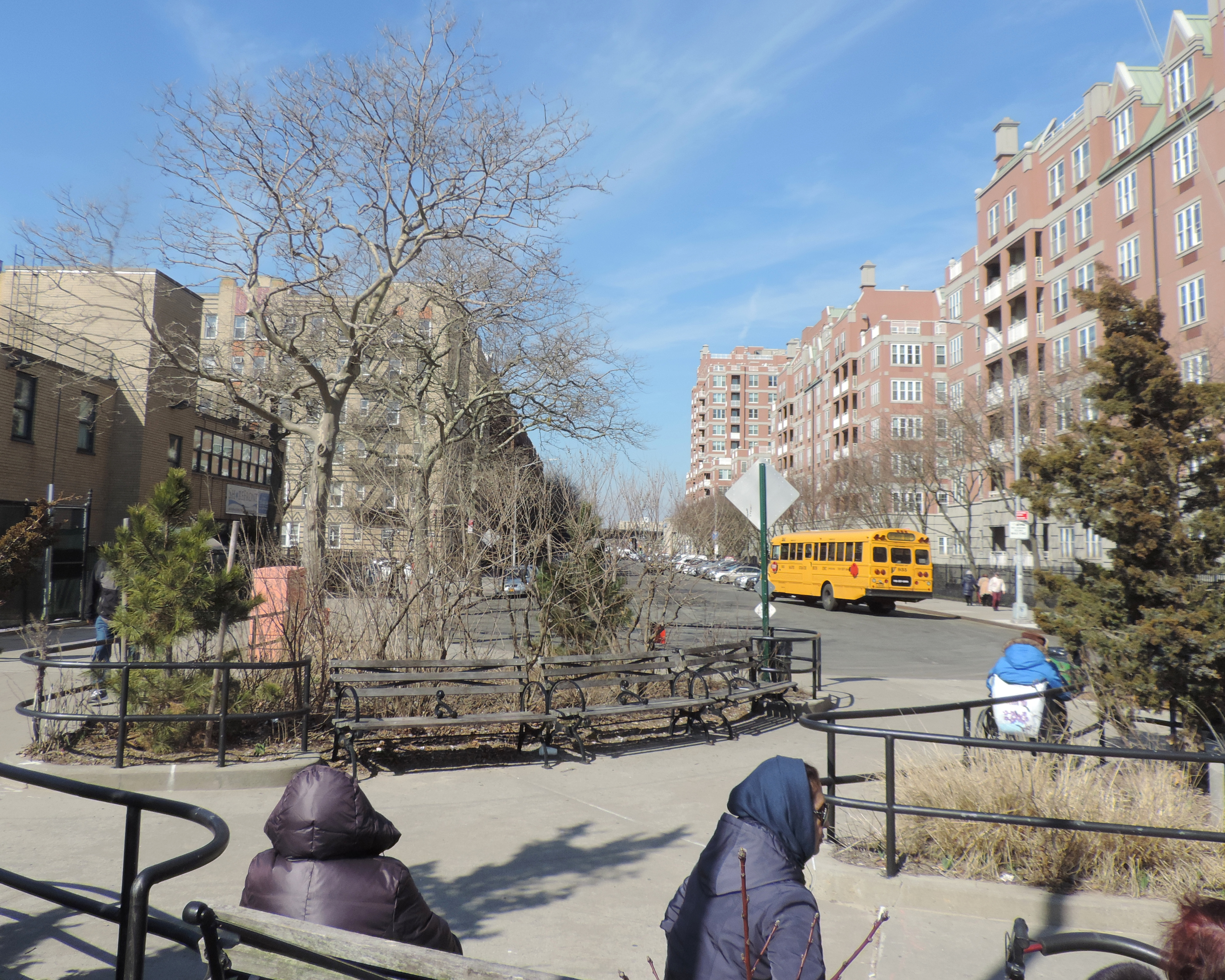 Looking north from boardwalk at foot of Coney Island Avenue on a sunny winter afternoon